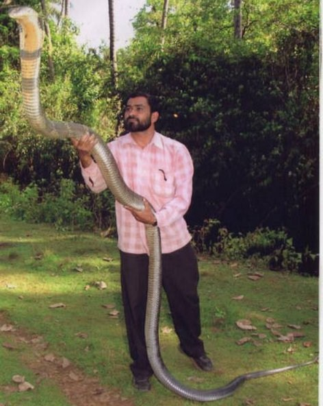 A man in Bangladesh holding a King Kobra in his hands.